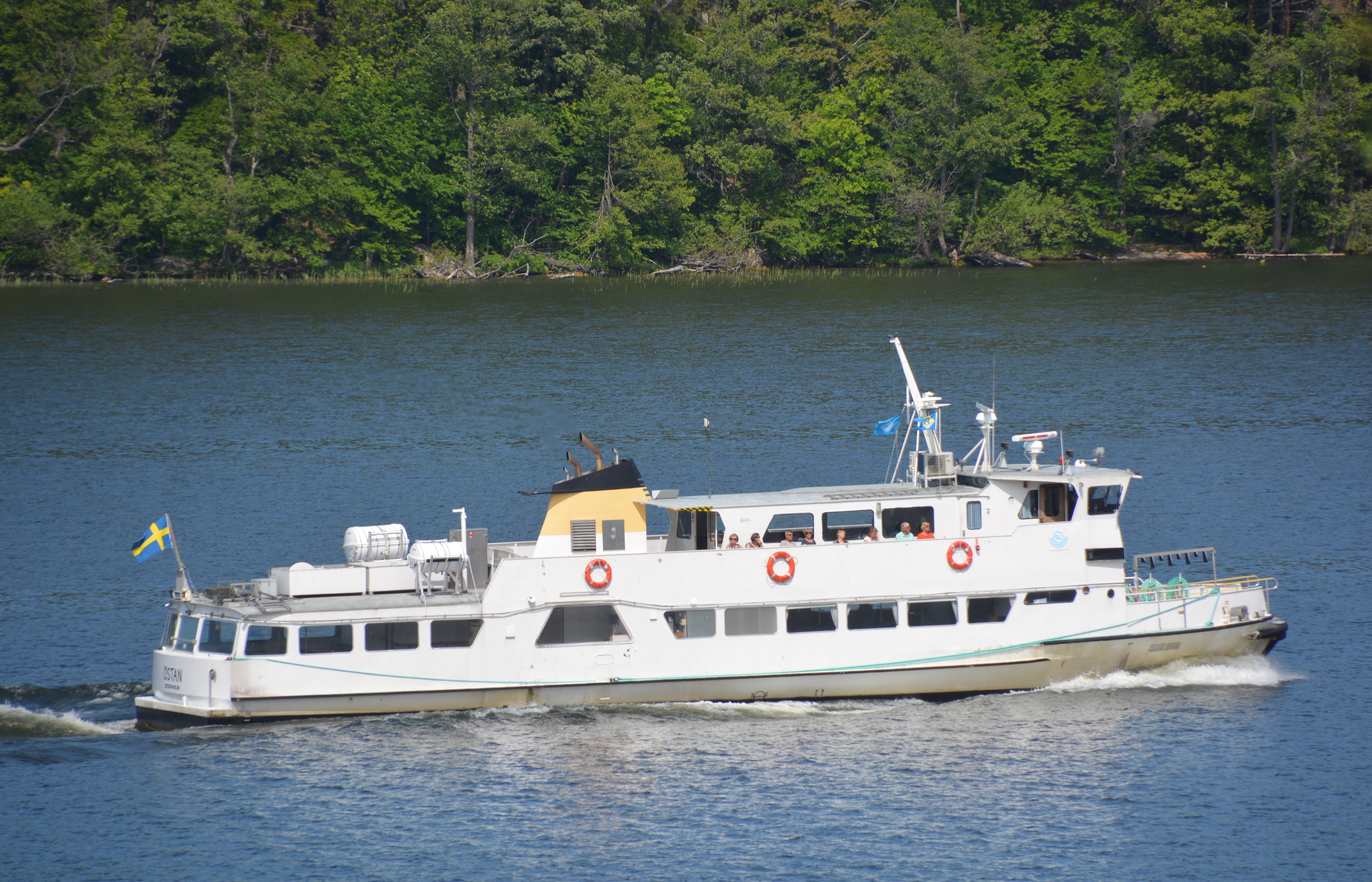 MS Östan